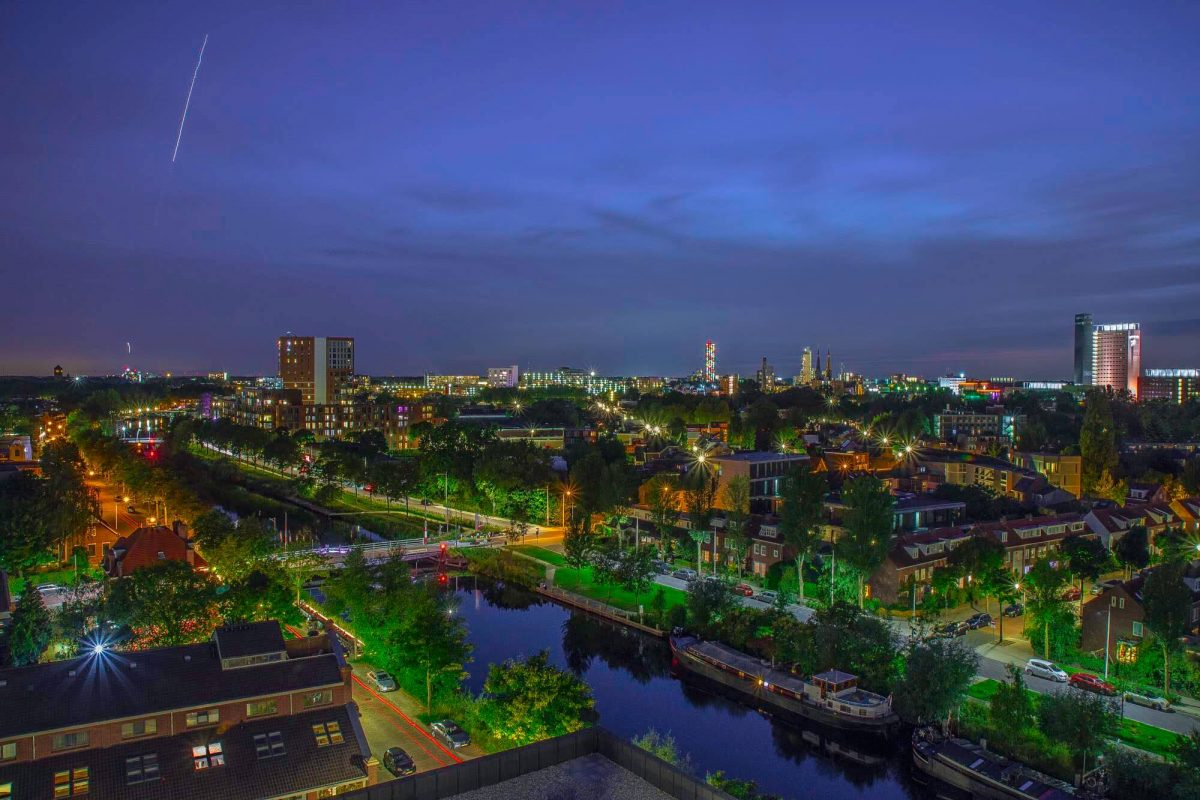 Skyline City of Tilburg 2017